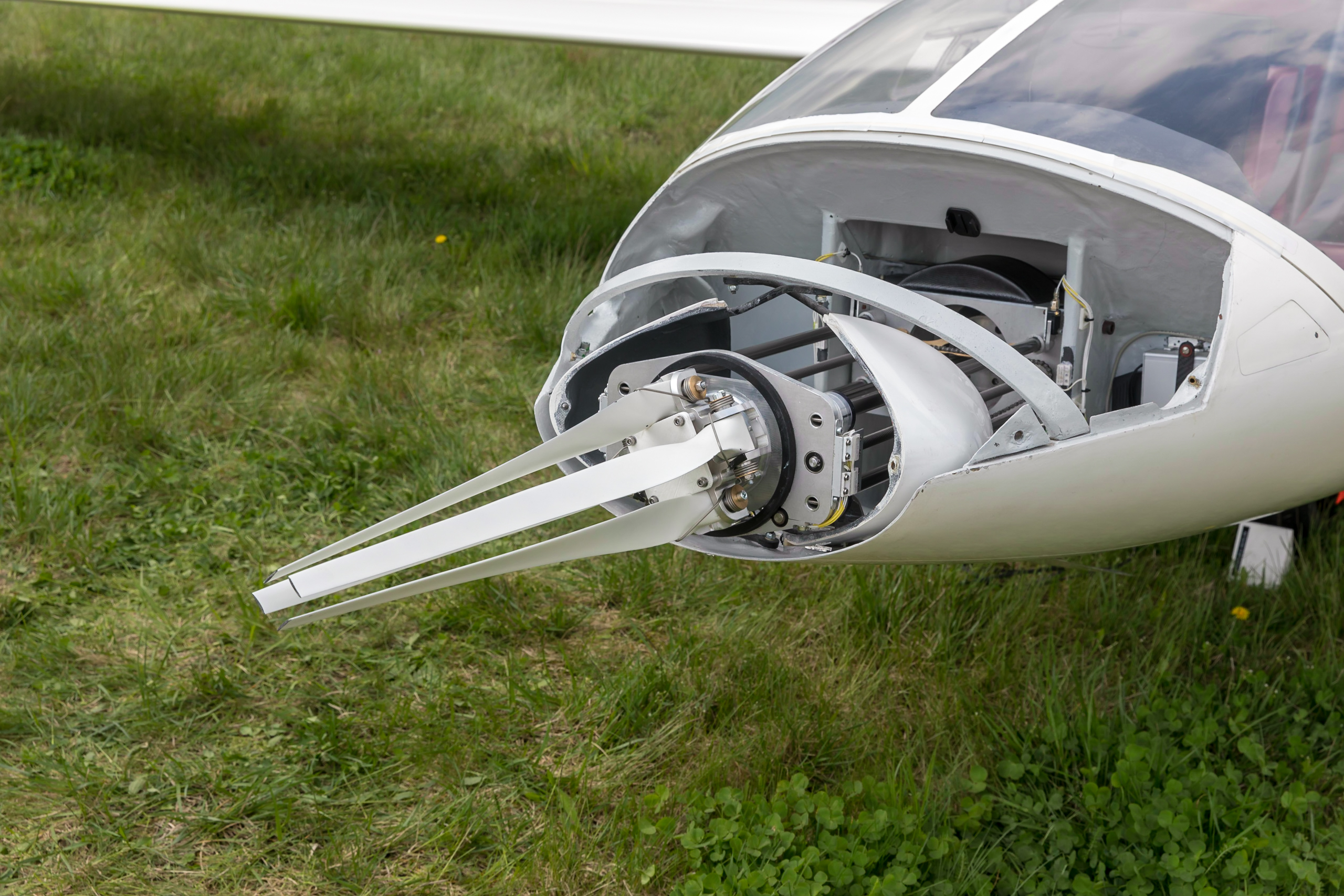 ILA 2018